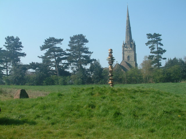 At Andrew's church and monument at Clifton Campville in one shot